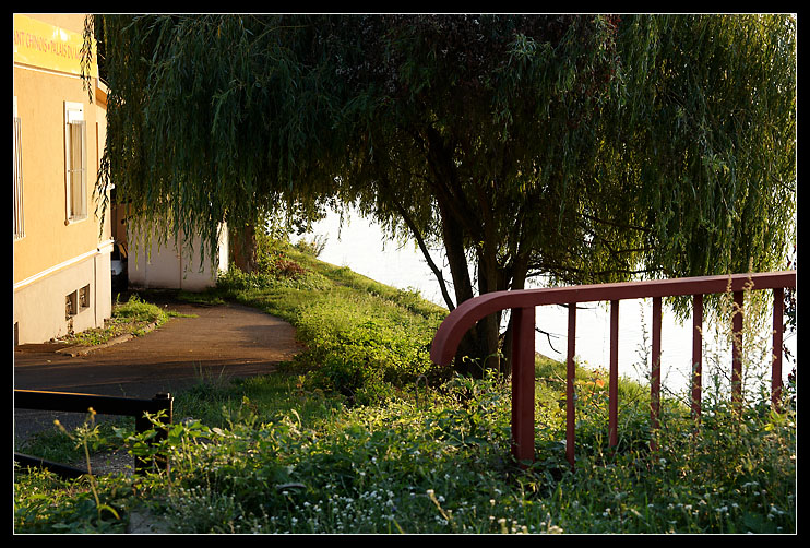 View of "Canal du Rhône au Rhin" from Illzach, Alsace, France